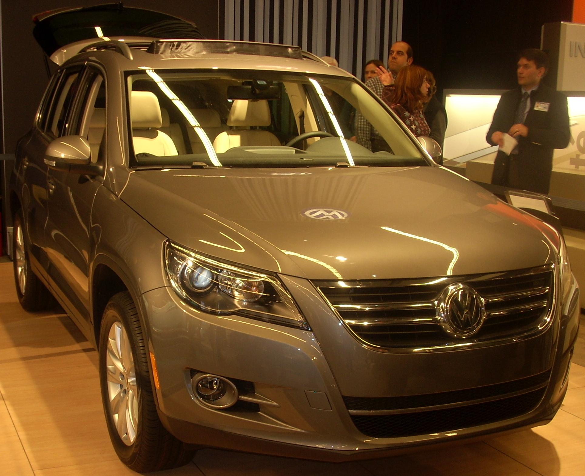 2009 Volkswagen Tiguan photographed at the Montreal Auto Show.